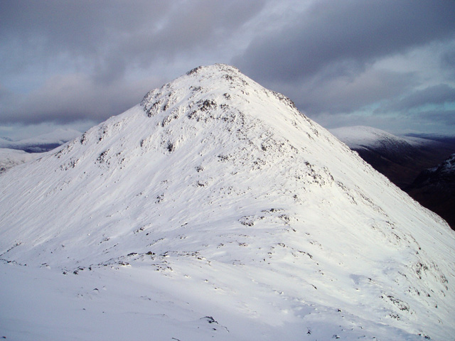 Buachaille Etive Beag: Stob Coire Raineach. Taken by Blisco, 2 January 2007.